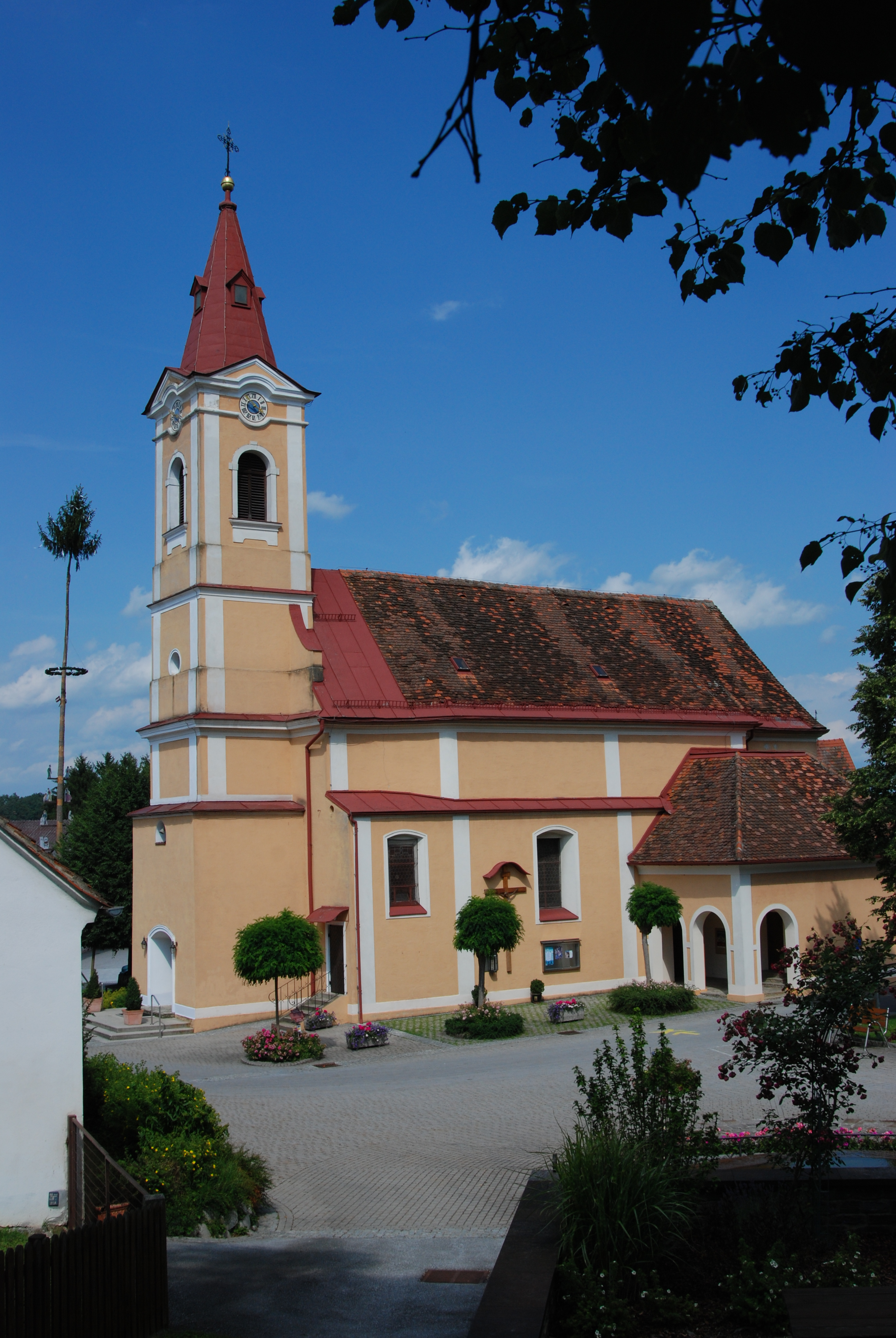 Church of Loipersdorf near Fürstenfeld